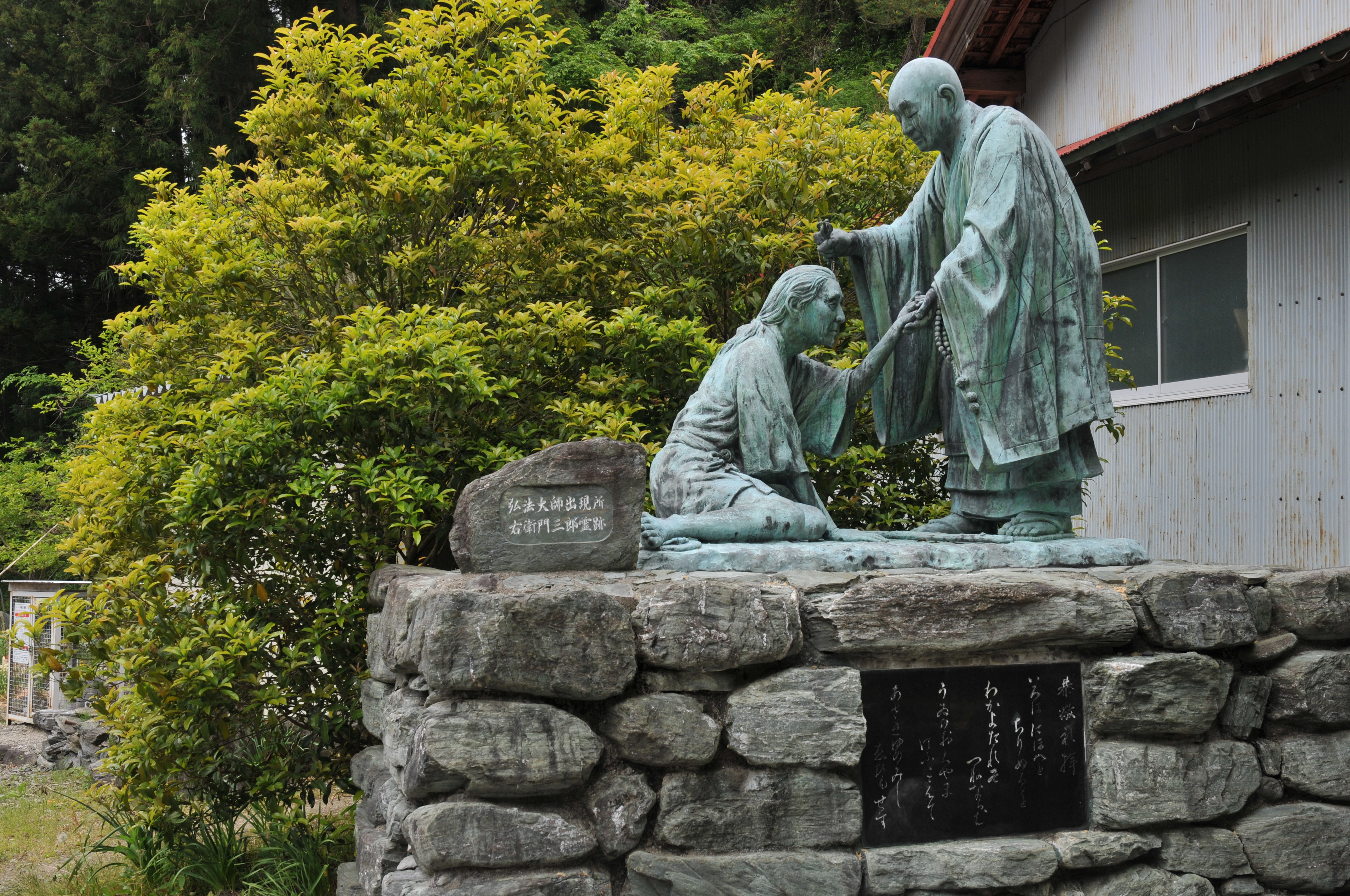 Statue of Emonsaburo met Kobodaishi, Jōshin-an